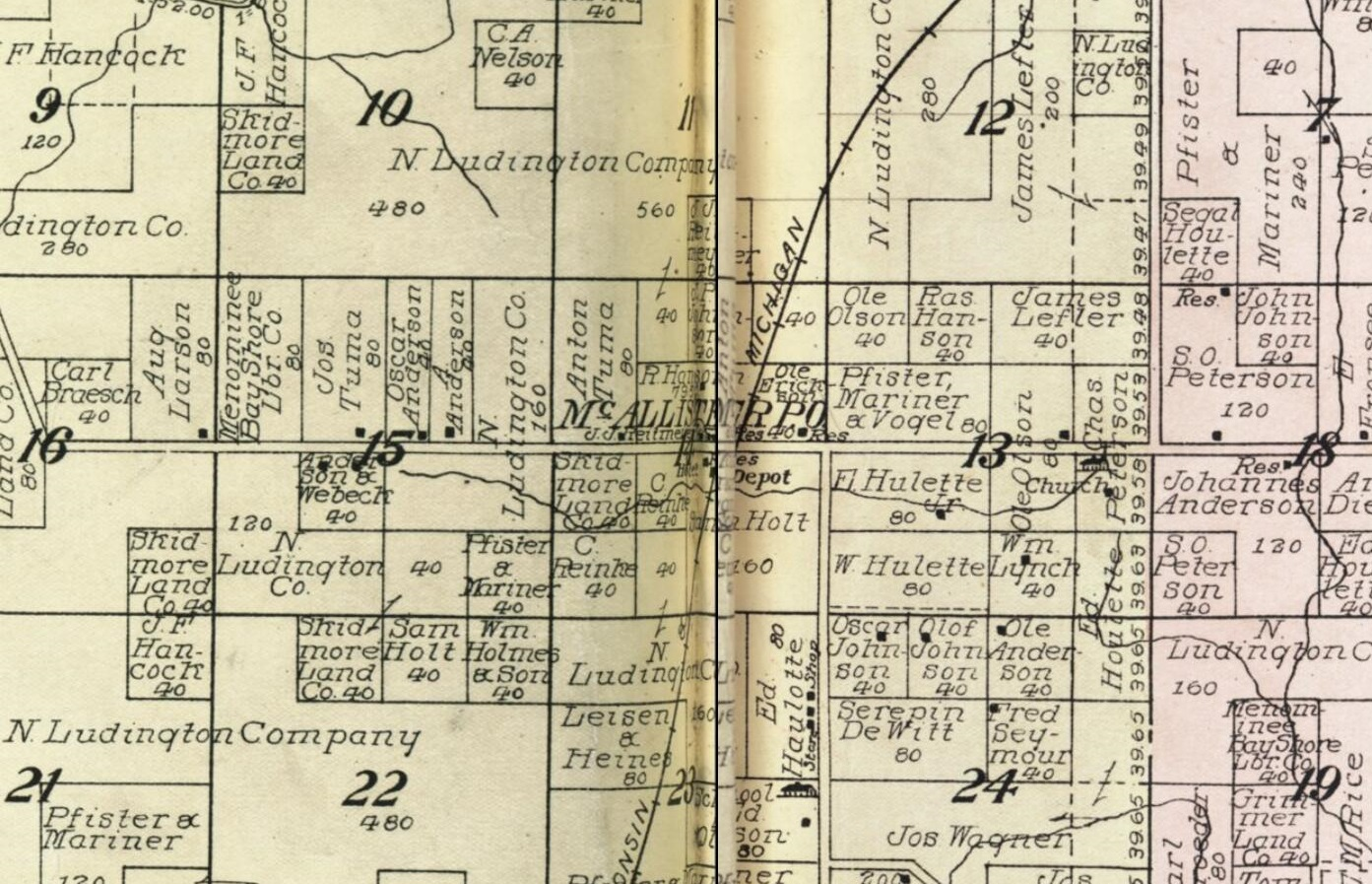 Map detail of McAllister, Wisconsin. From Standard Atlas of Marinette County Wisconsin Including a Plat Book of the Villages, Cities and Townships of the County. 1912. Chicago: Geo. A. Ogle & Co.